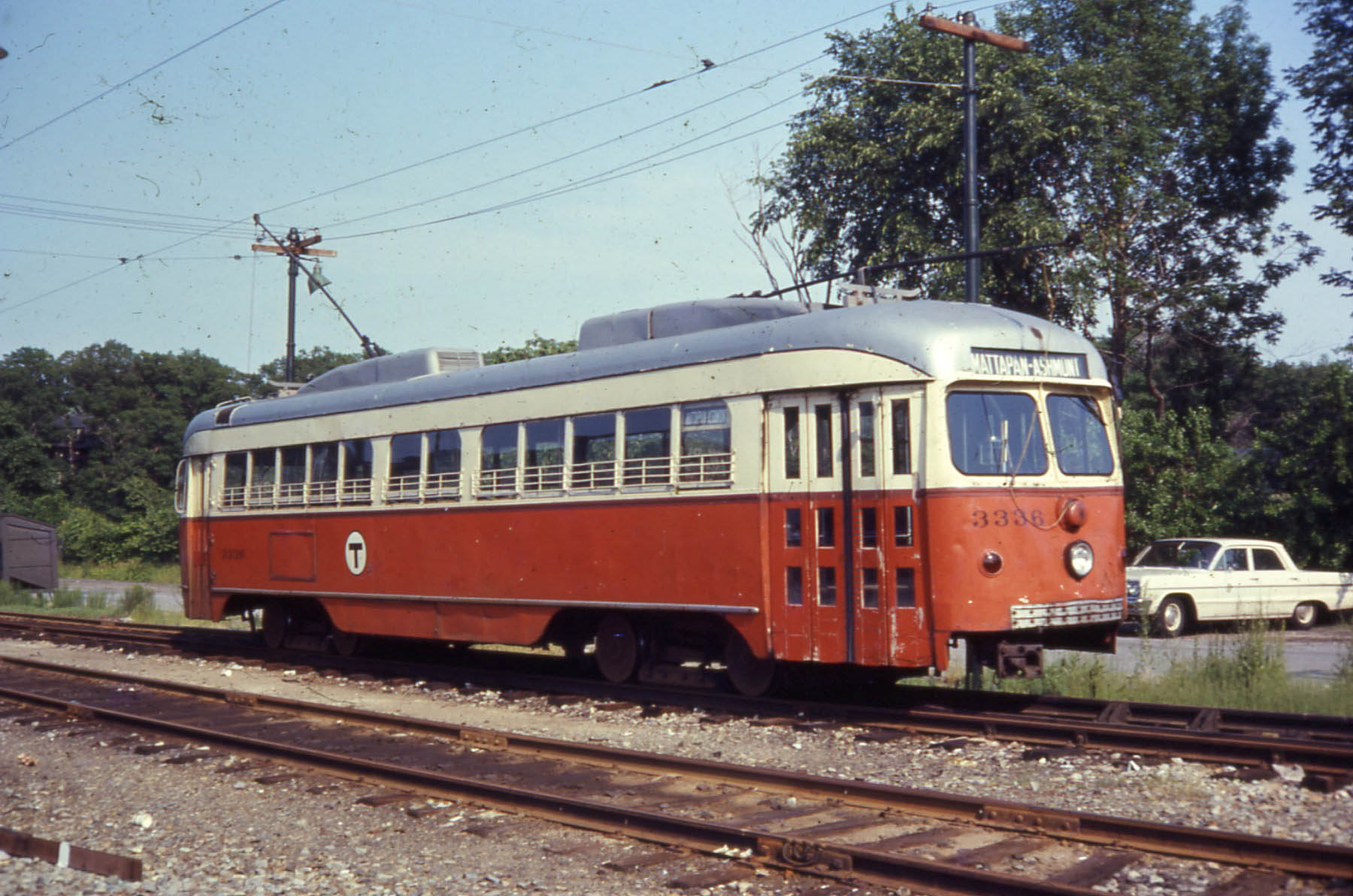 A PCC car near Mattapan station in 1967